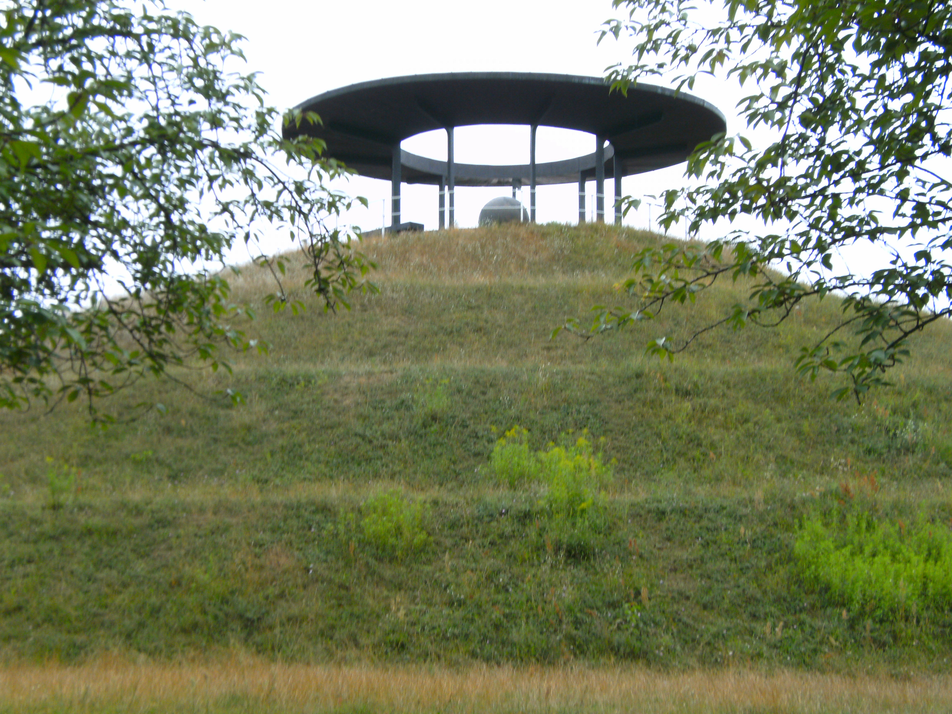 Berlin-Lichterfelde, Germany: rearview of Fliegeberg (hill for flying experiments of Lilienthal).